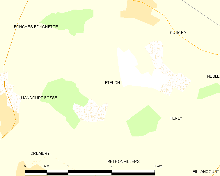 Map of French municipality Étalon